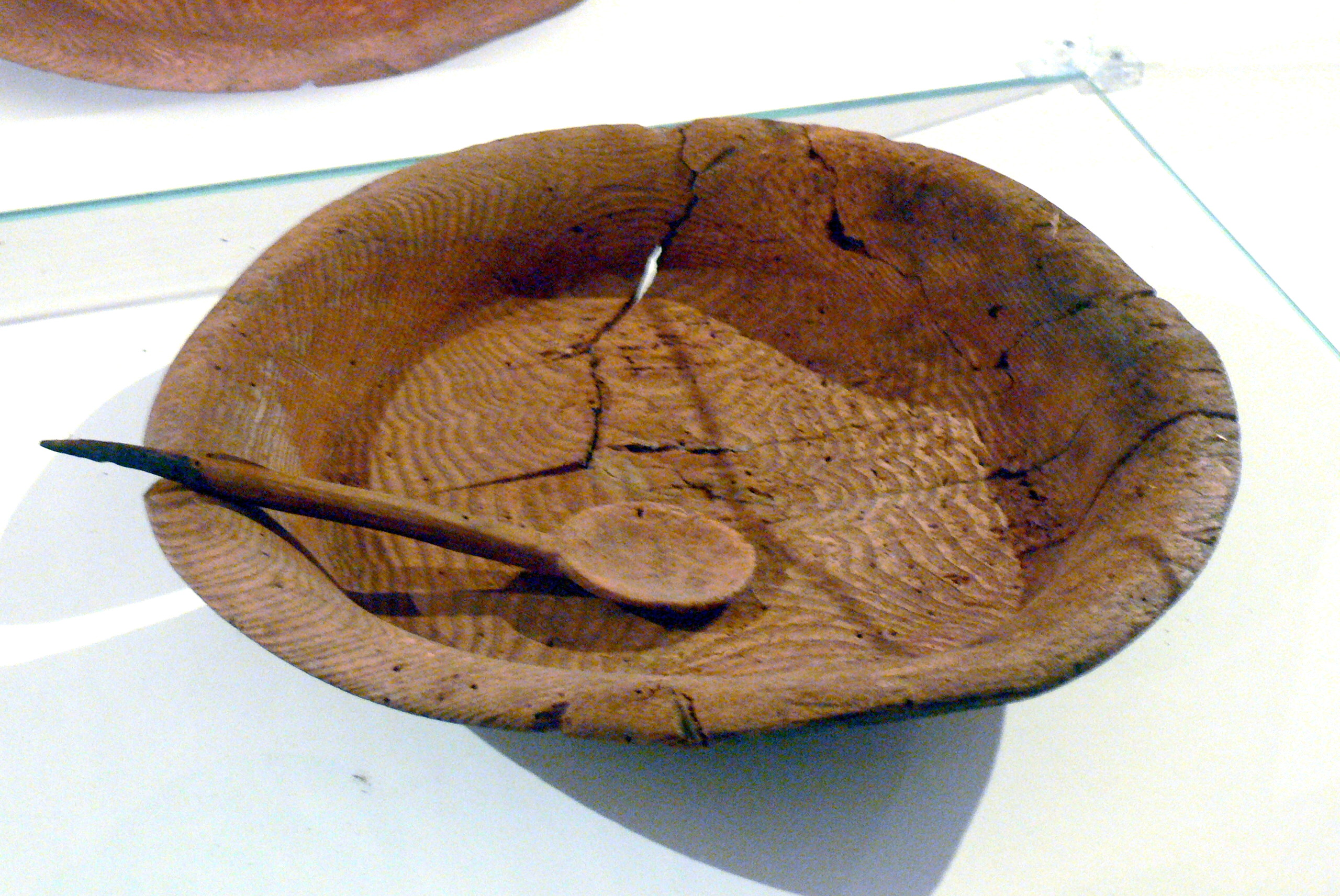 Oberhausmuseum ( Passau ). Wooden bowl with spoon ( 15th century ).